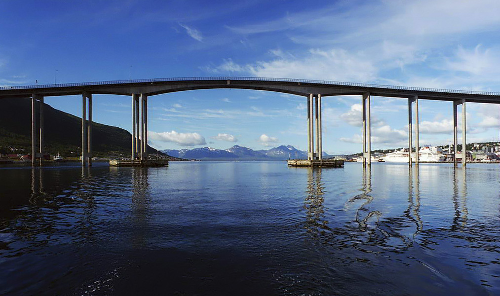 A road bridge at Tromsø, Norway